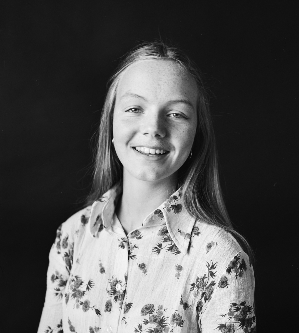 Mari Maurstad (born 17 March 1957) is a Norwegian actress. She debuted at Nationalteatret (the National Theatre) in 1981, and has worked there since.